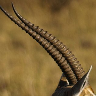 Horns of Thomson's Gazelle at Masai Mara, Kenya